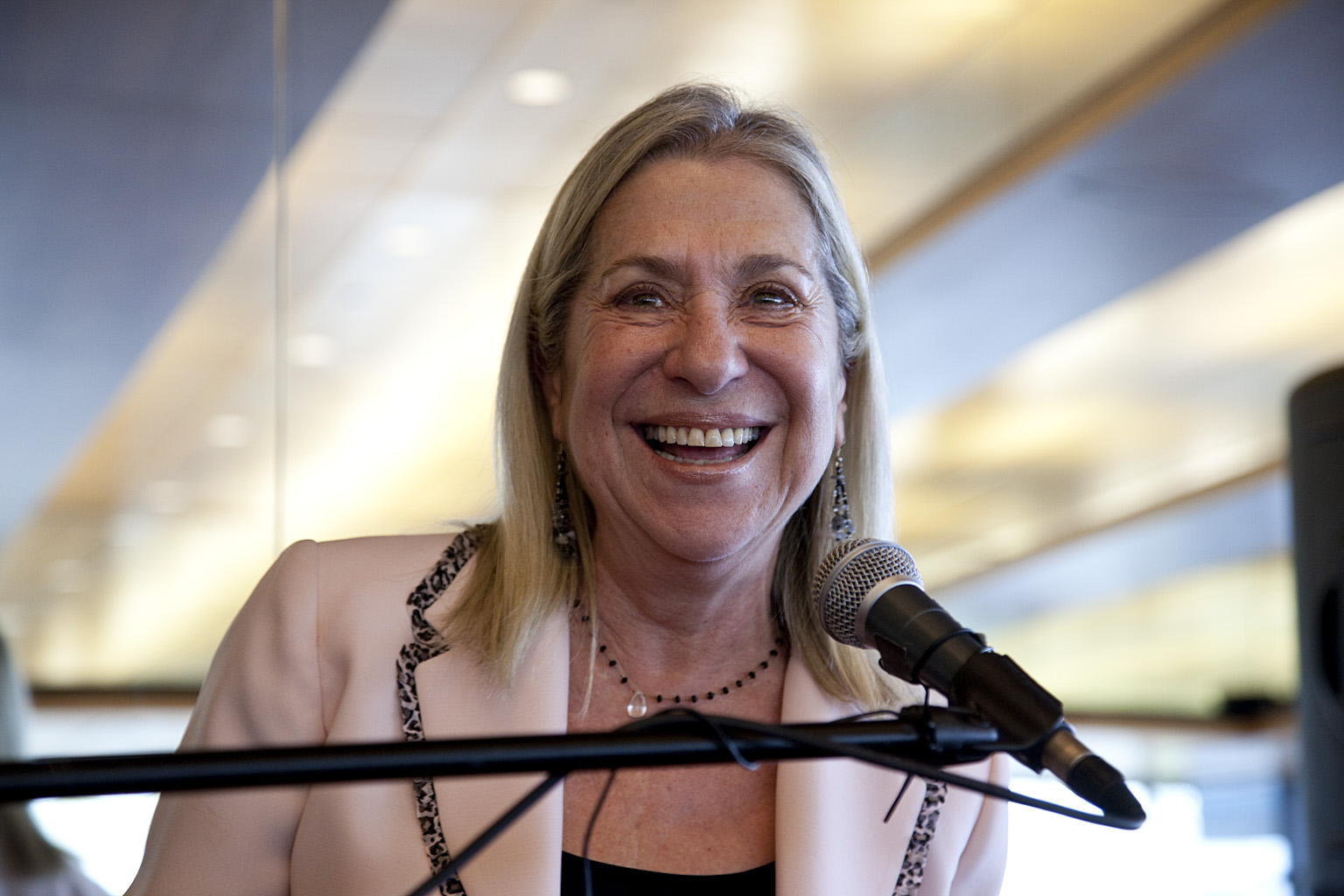 Letty Cottin Pogrebin at the JWA Making Trouble/Making History luncheon on March 18, 2012.